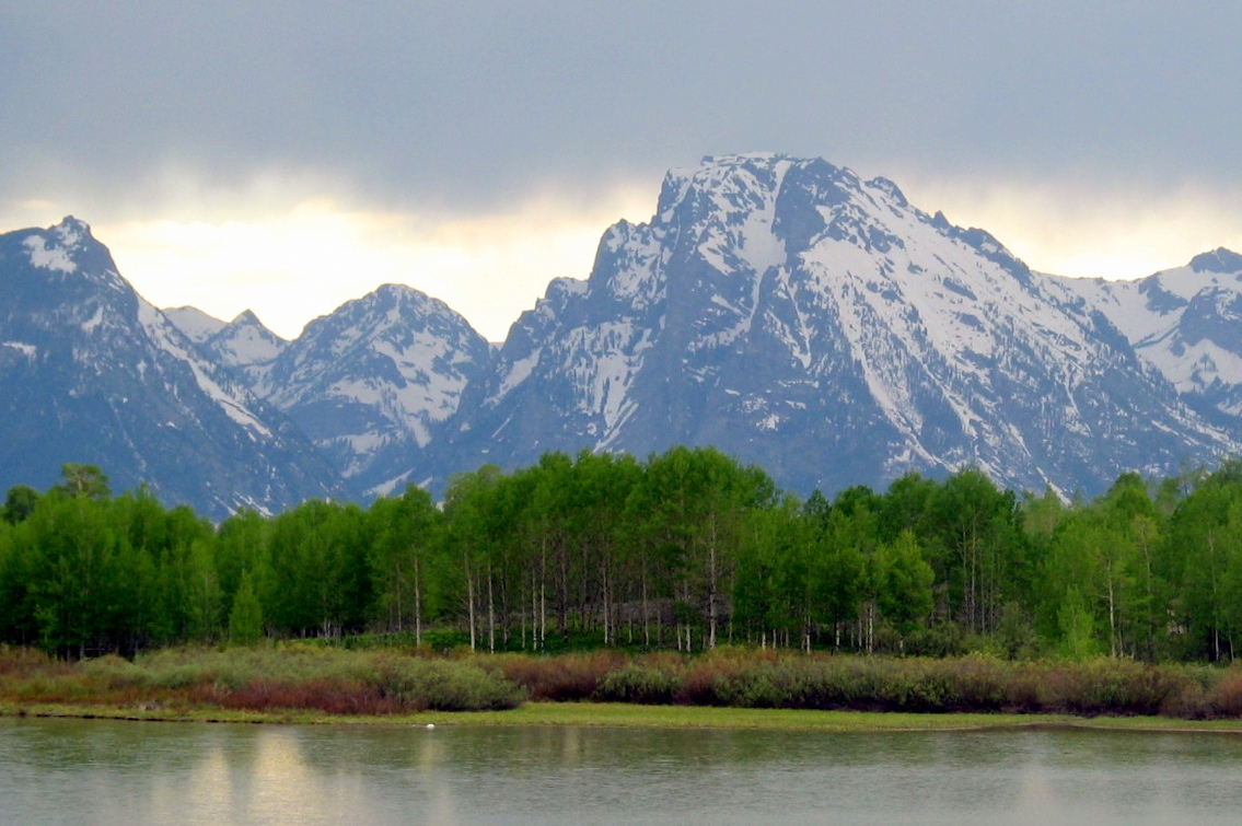 The Grand Tetons Mountain in Wyoming